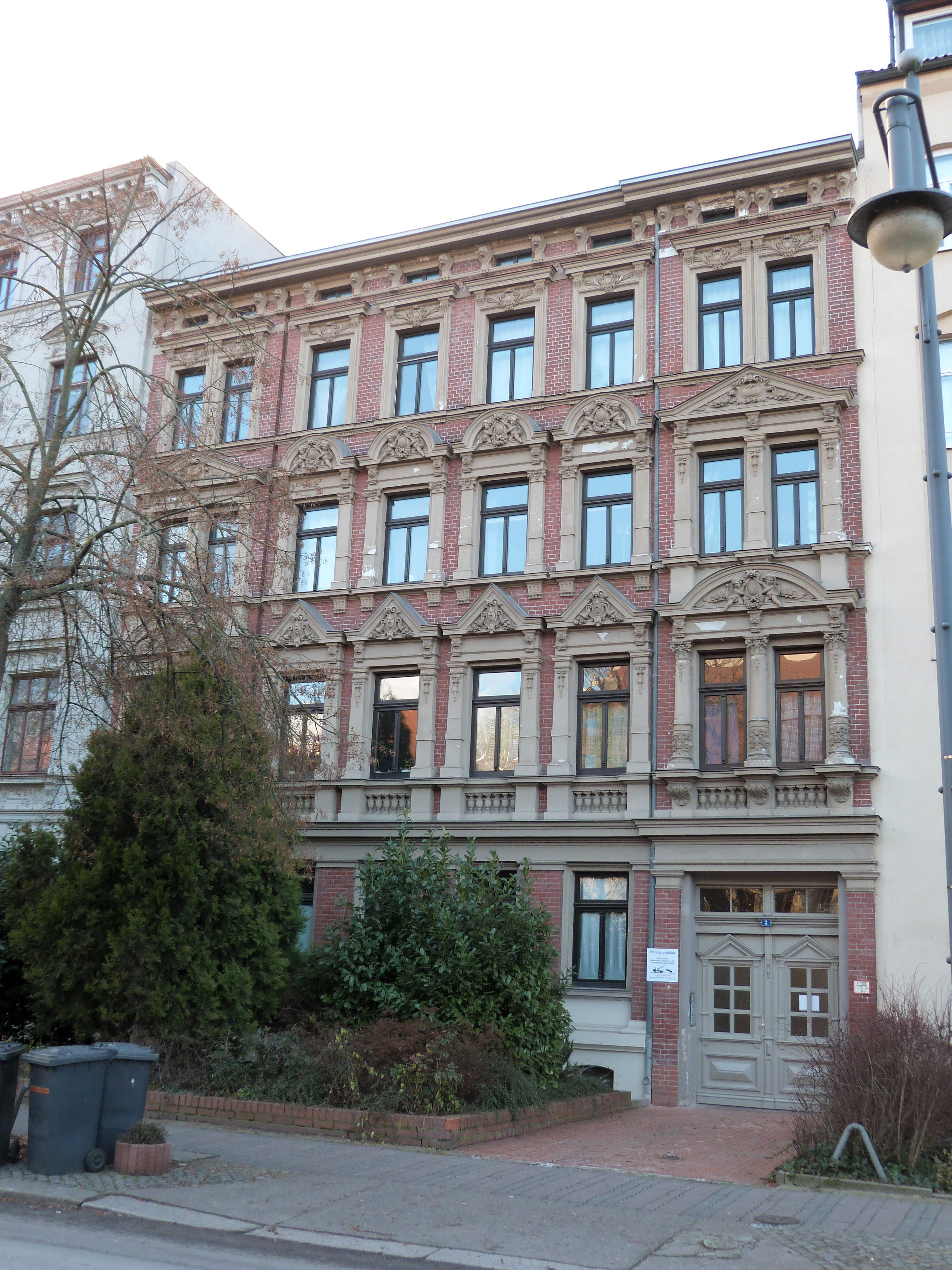 House No. 3 Robert-Franz-Ring in Halle (Saale)